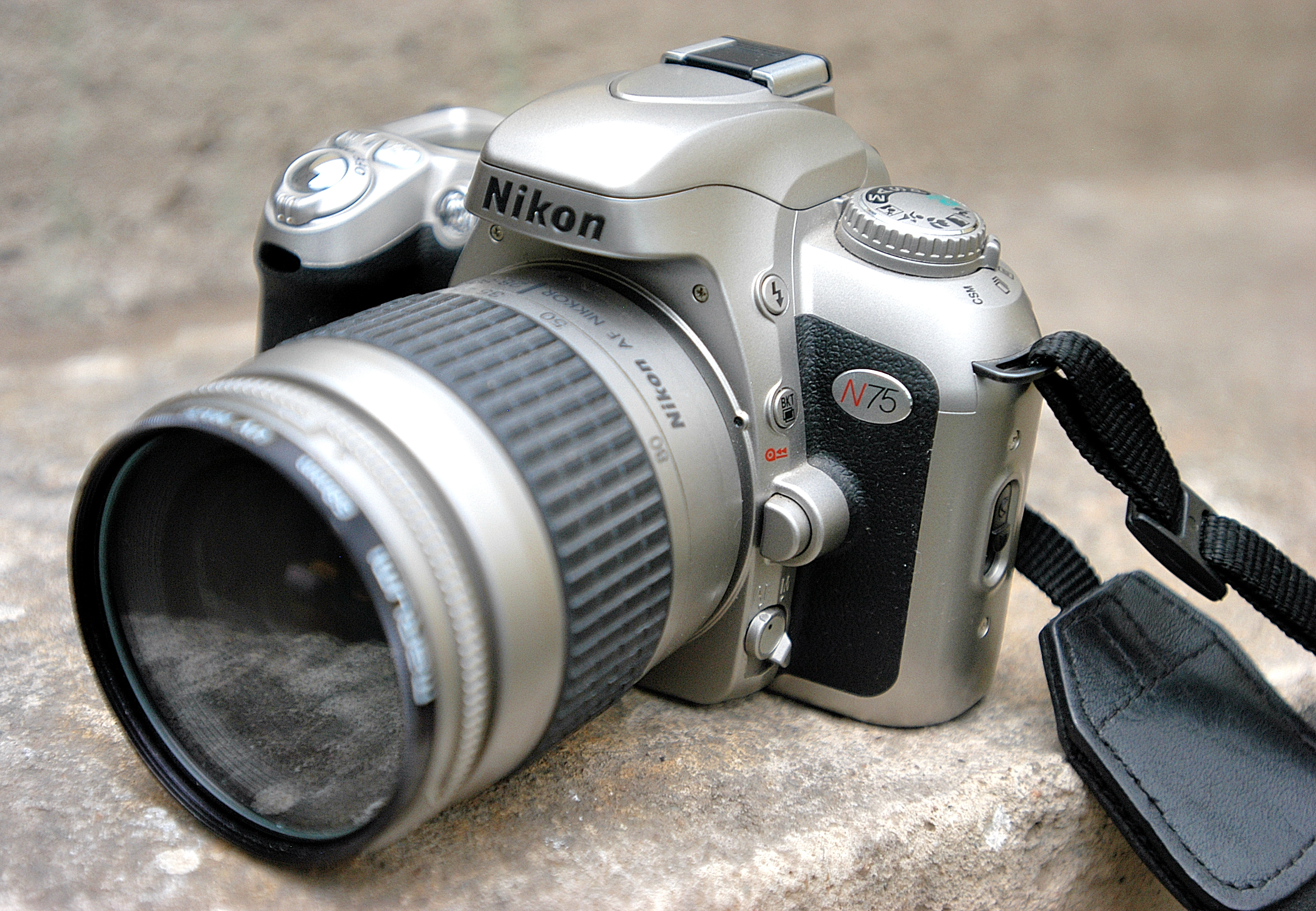 Nikon N75